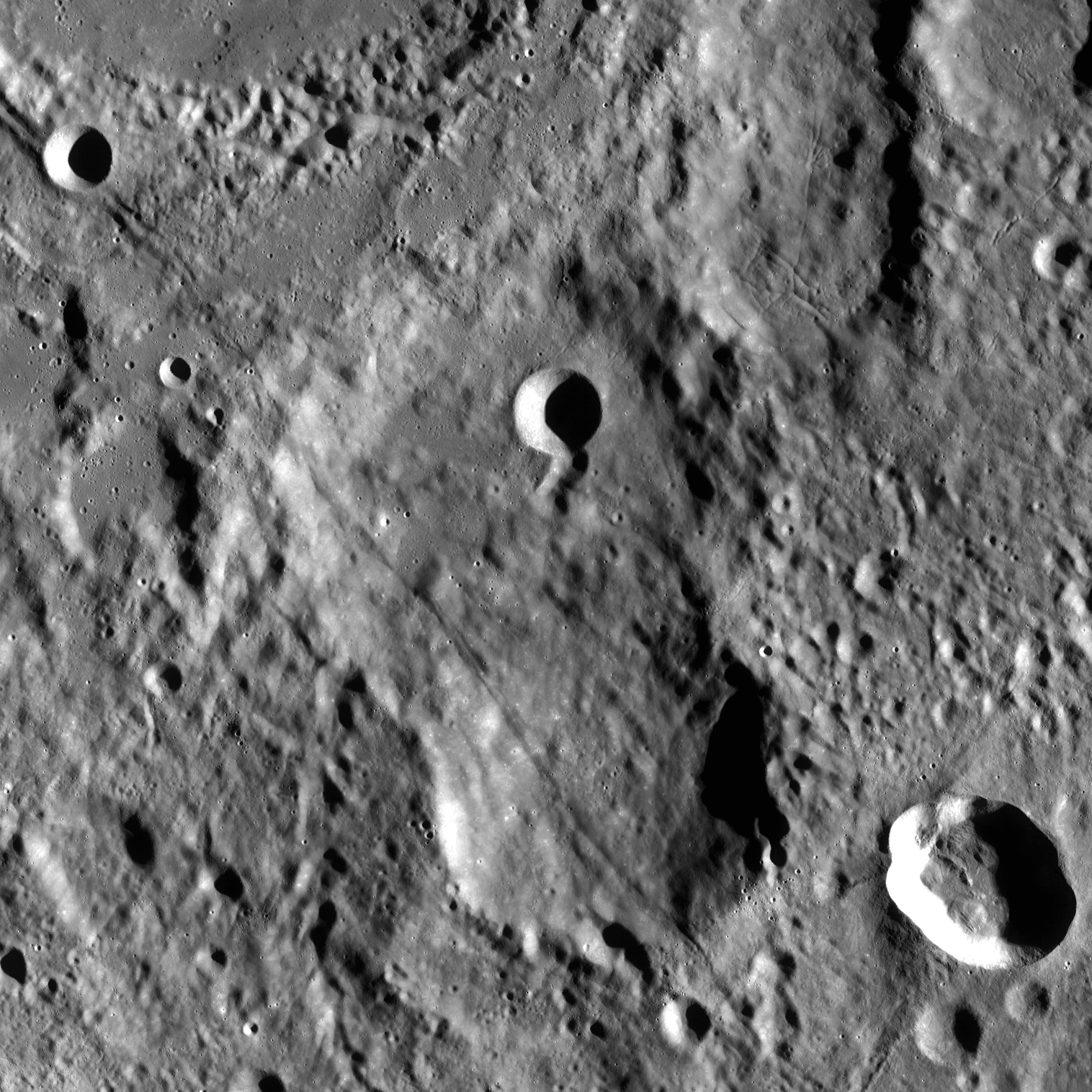 Crater Hase on the Moon. Smaller crater below the center is Hase D. Mosaic of photos by Lunar Reconnaissance Orbiter, made with Wide Angle Camera. Size of the image is 180×180 km, north is up.